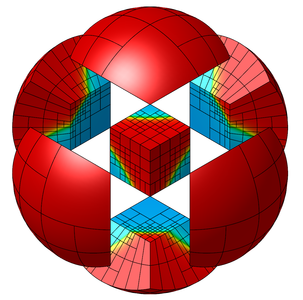 MFEM logo, 300px